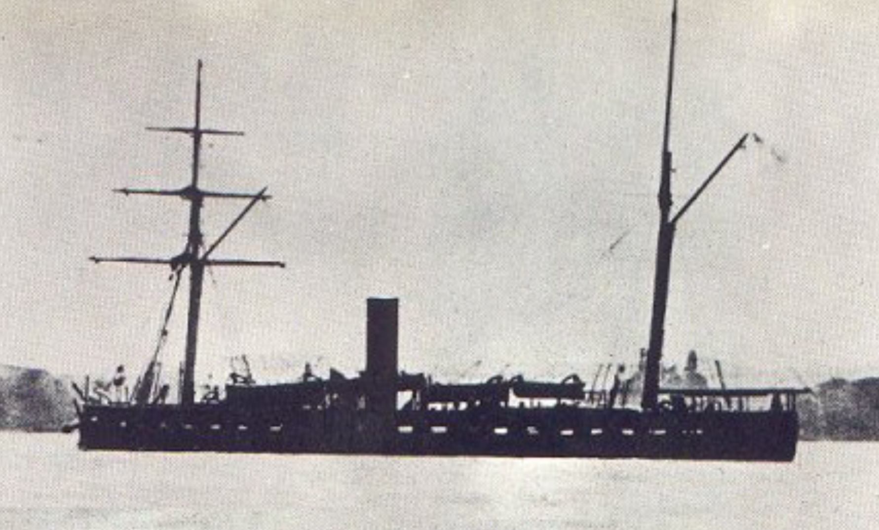 SMS Arminius, an ironclad monitor of the Prussian Navy. Photographed before 1870.